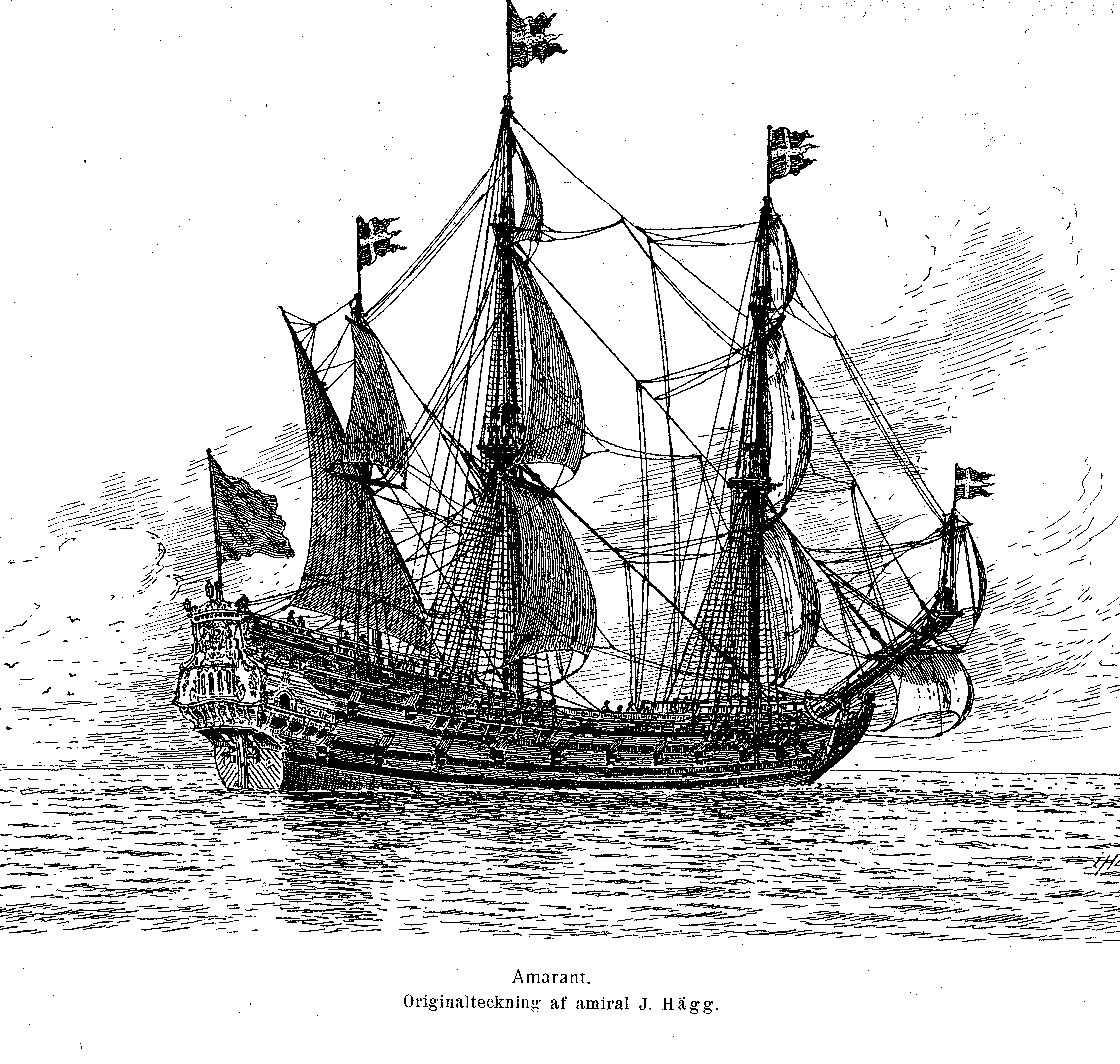 Swedish ship of the line HMS Amarant 1654.